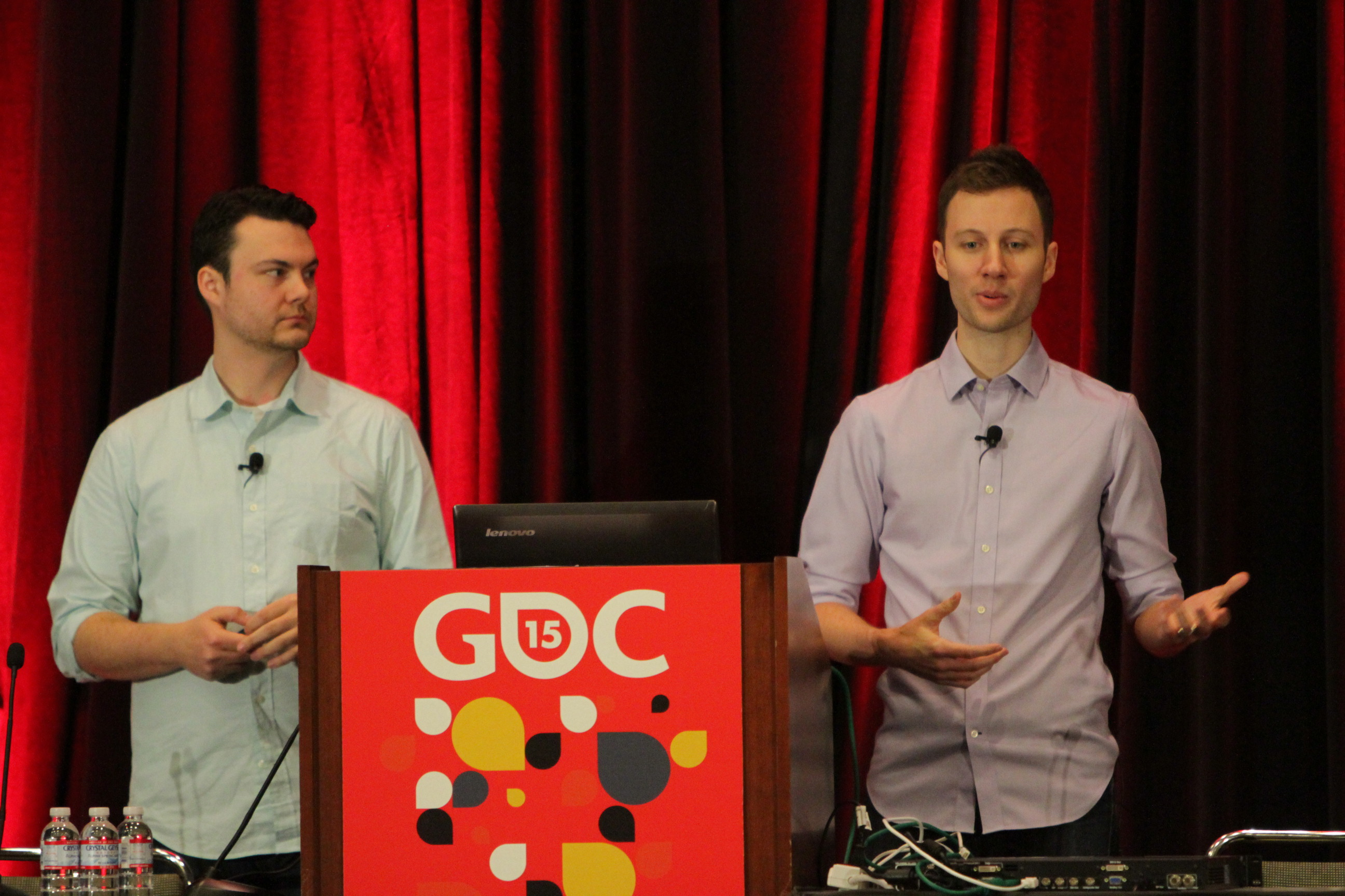 Worlds Collide: Combining Story and Systems in Dragon Age: Inquisition Mark Wilson | Lead Technical Designer, BioWare Kaelin Lavallee | Lead Narrative Designer, BioWare Location: Room 3016, West Hall Date: Thursday, March 5 Time: 11:30am - 12:30pm